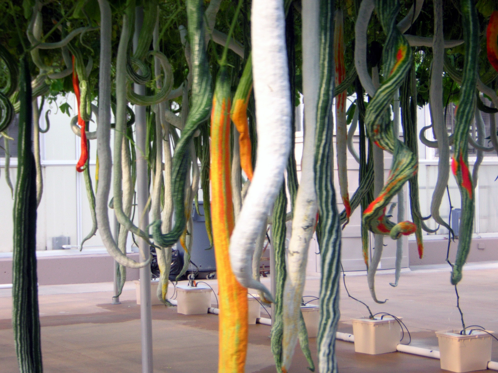 snake gourds. In the process of ripen they become elongated, twisted and red-orange.